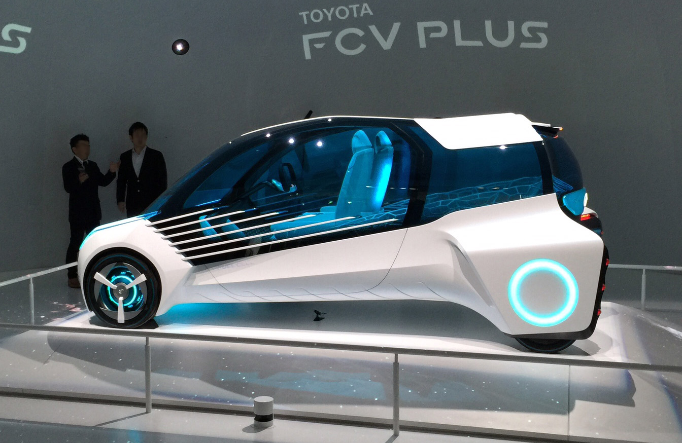 Toyota FCV Plus Concept at the Tokyo Motor Show 2015